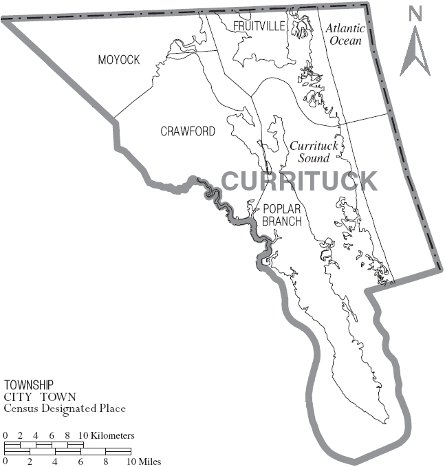 Map of Currituck County, North Carolina, United States with township and municipal boundaries